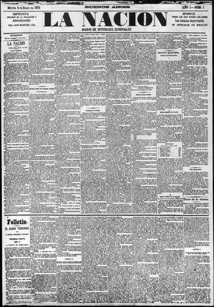 Cover of the first published edition of Argentine newspaper La Nación. The newspaper was founded by former President of Argentina, Bartolomé Mitre.